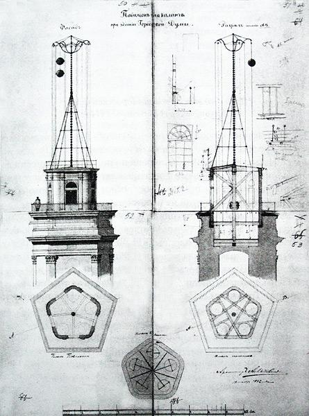 Design drawing of the pavilion on the St. Petersburg City Hall tower, 1892.